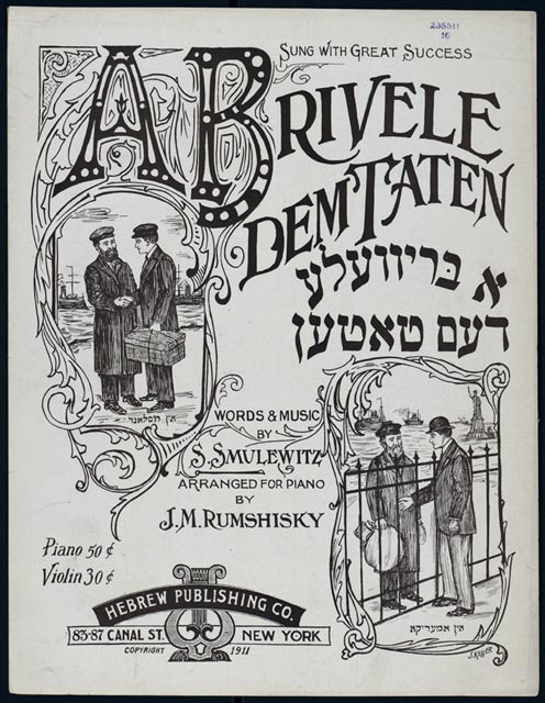 Description from Library of Congress web page, "From Haven to Home: 350 Years of Jewish Life in America / A Century of Immigration, 1820-1924" ( A Little Letter to Father Pictured on this sheet music cover are two scenes: a father and son parting in the Old World, and the same pair meeting at Ellis Island. Solomon Smulewitz's lyrics recount a familiar tale of woe: "Mother has died in loneliness and poverty. Write a letter to father and send money for him to come to America. Alas, father is too ill to be admitted here. He is permitted to see his son at the gate of Ellis Island, and then will be sent back to Europe." Original image caption: Solomon Smulewitz (1868-1943) and J.M. Rumshisky (1879-1956). A Brievele dem Taten [A little letter to my father]. New York: Hebrew Publishing Co., 1911. Sheet music cover. Hebraic Section, Library of Congress (82)